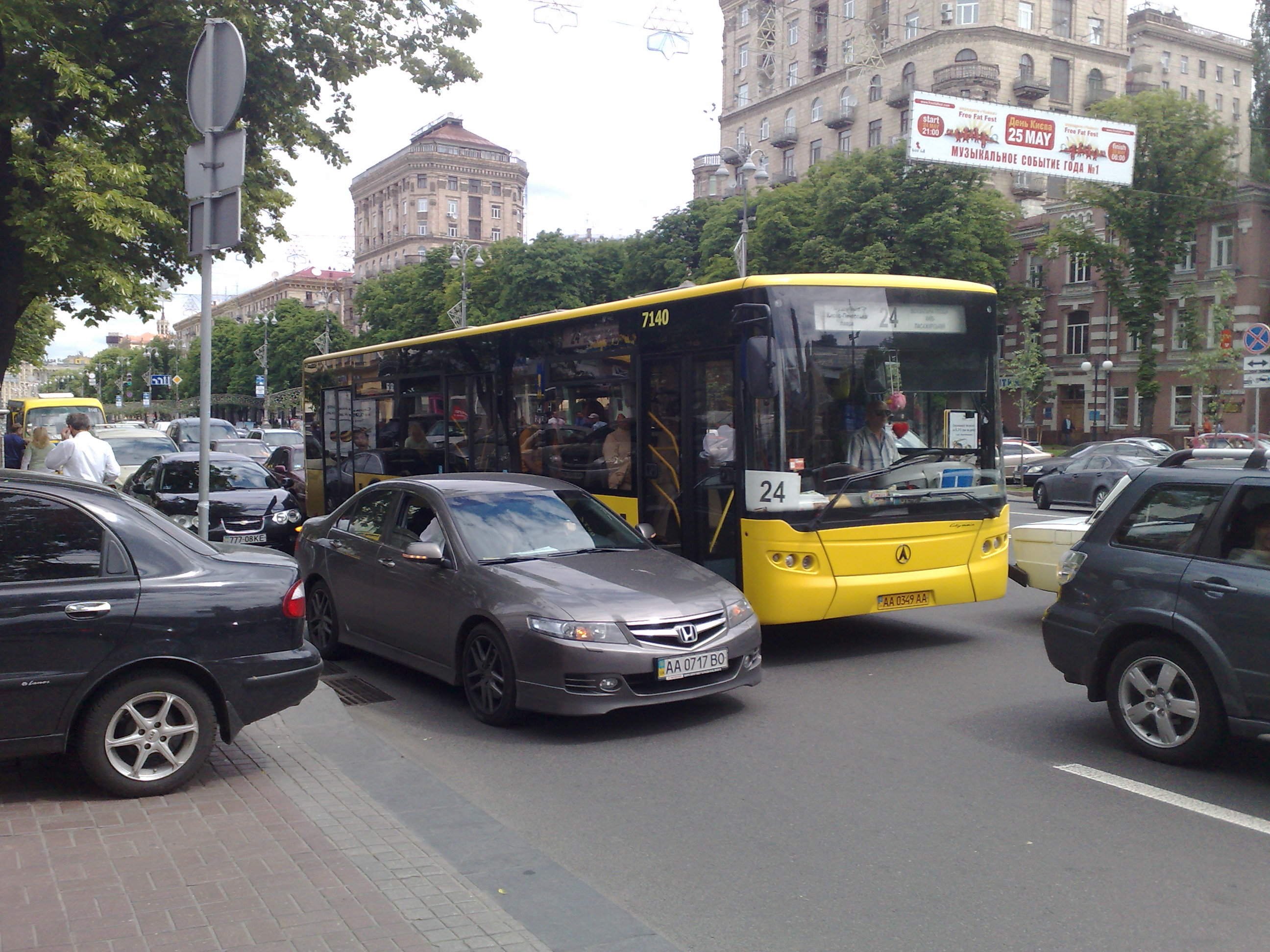 LAZ A-183 city bus (#7140) in Kiev, Ukraine. Built 2007. КПТ Київ operator.